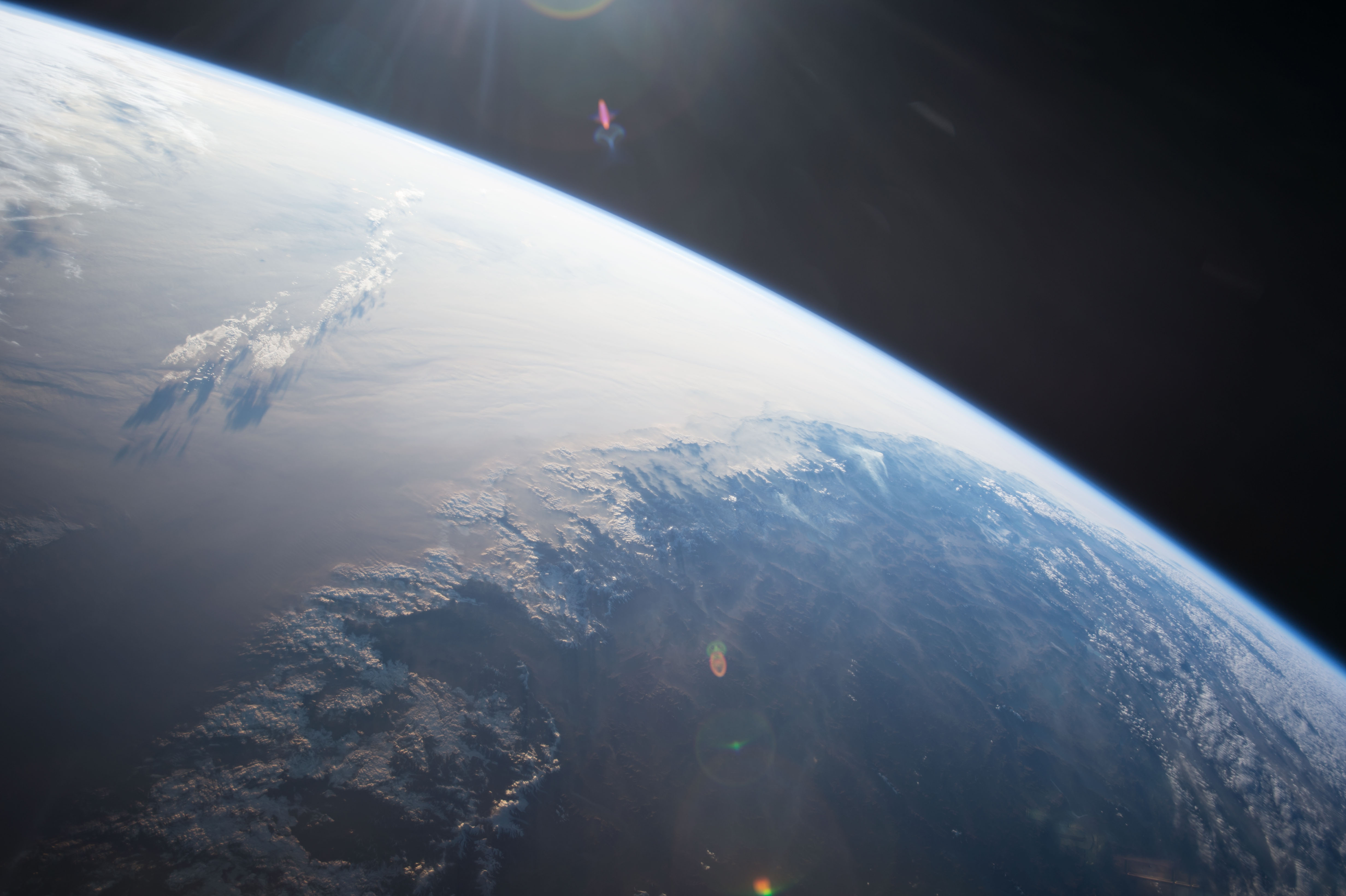 European Space Agency astronaut Samantha Cristoforetti took this beautiful image of the Earth from the International Space Station on 9 December 2014.